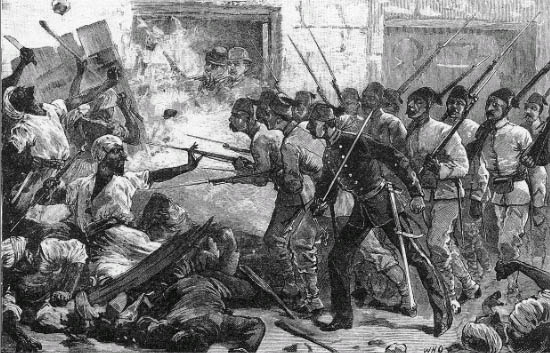 "Clearing the Streets of Alexandria, June 11, 1882"